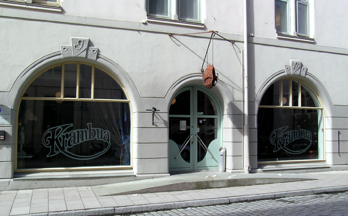 Art Nouveau shop windows, Krambugata 12, Trondheim, Norway. Built 1908. Architect: Hagbarth Schytte-Berg.